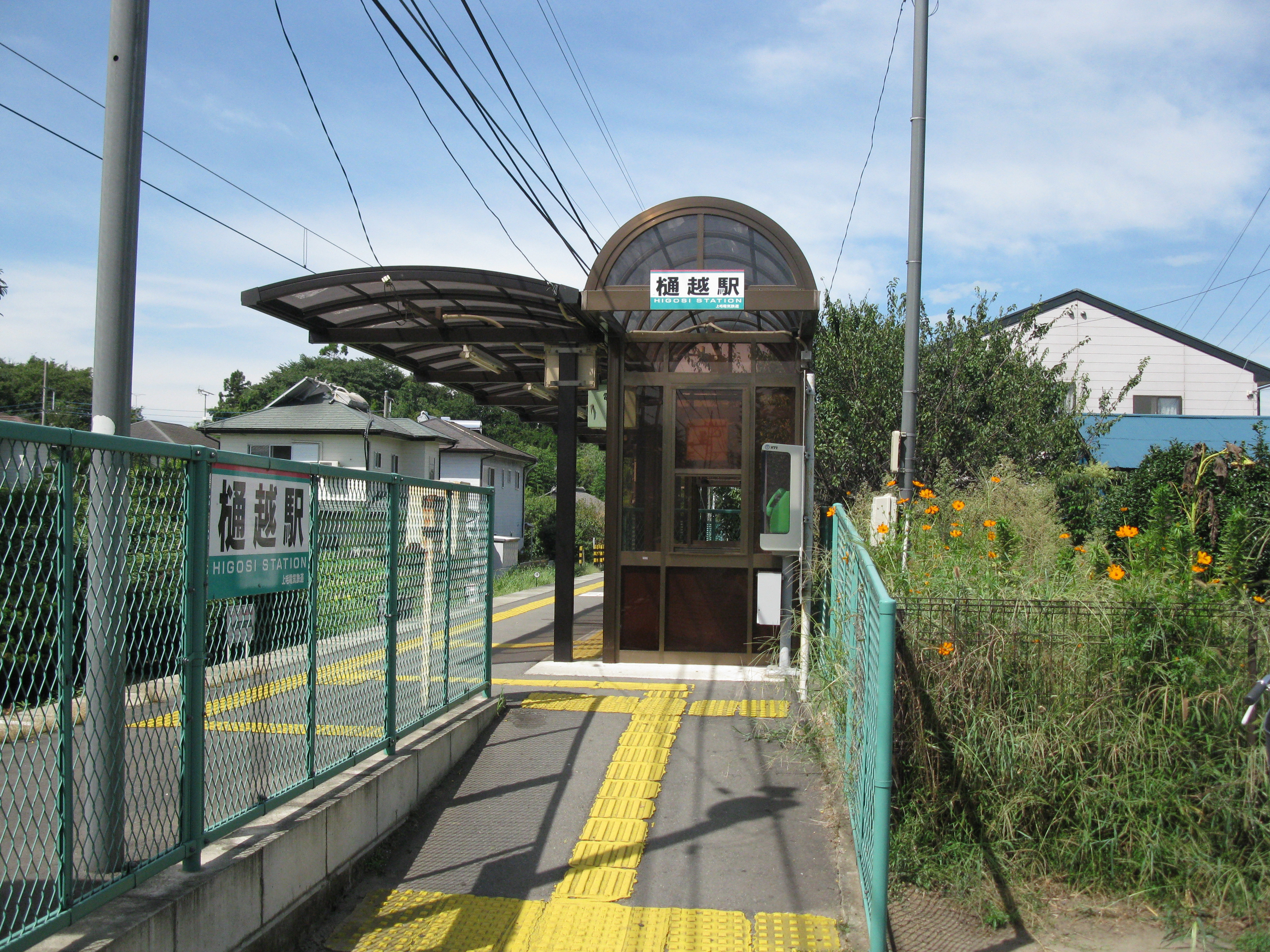 Hogishi Station entrance (Jōmō Electric Railway Company Jōmō Line)